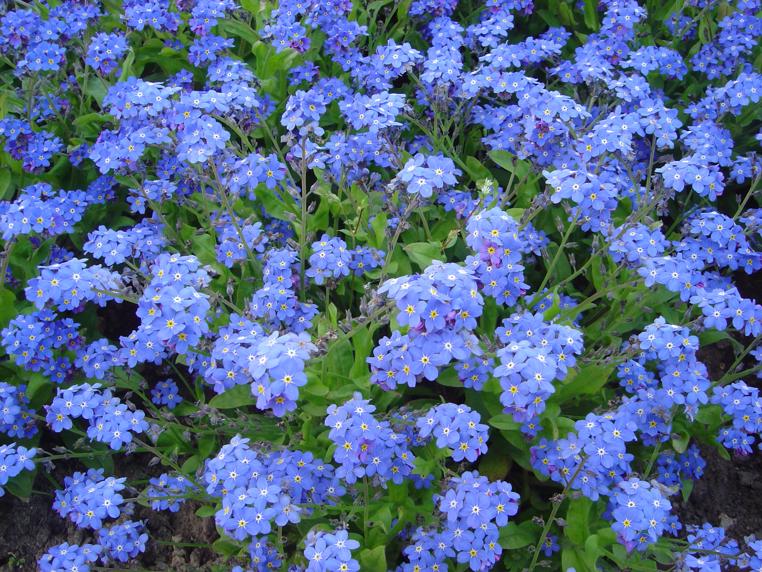 Myosotis 'Victoria' white Mir PB Cent 90 Myosotis victoria En: Photograph taken at the Jardin des Plantes in Paris, France Fr: Photographie prise au Jardin des Plantes à Paris, France